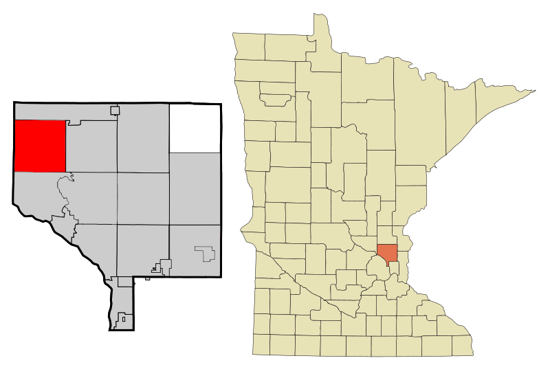 This map shows the incorporated and unincorporated areas in Anoka County, highlighting Nowthen in red. This file has been updated to reflect the recent incorporation of new municipalities.